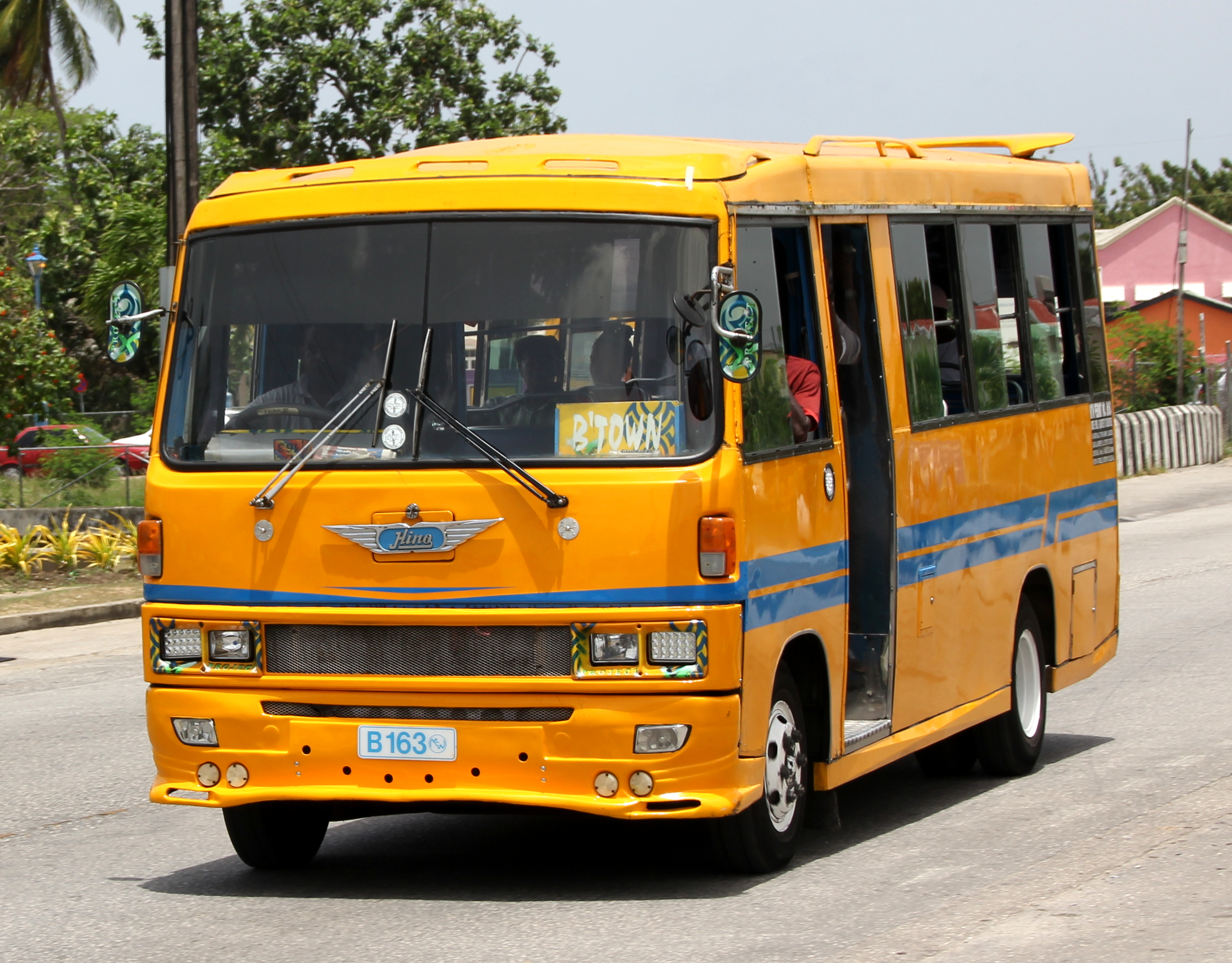 An ACME Hino Midibus in Speightstown, Barbados. Probably the series beginning in1995.